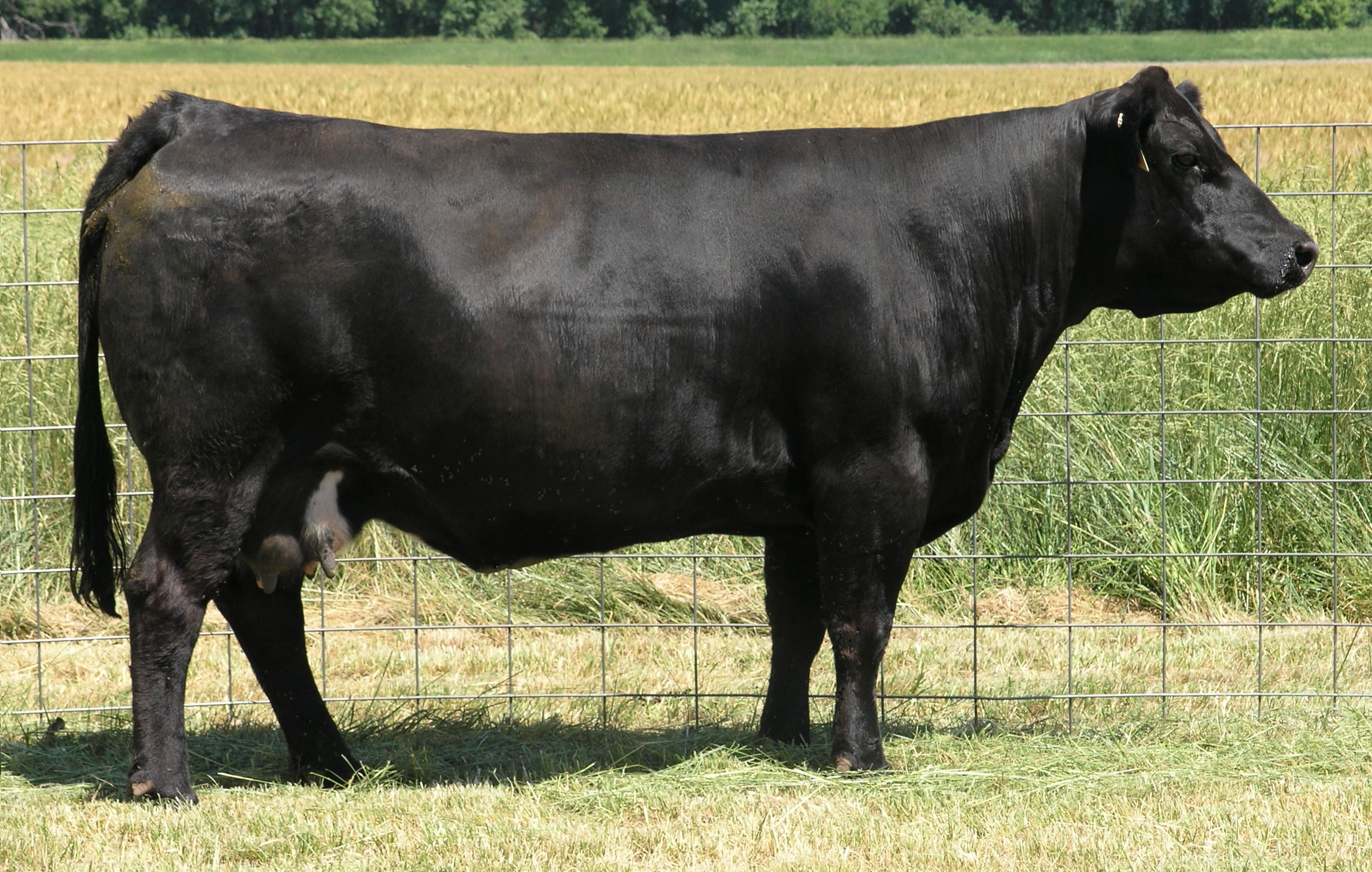 Photo of a modern "Black Simmental" cow located in North America. This photo was take at River Creek Farms, located in Manhattan, Kansas.